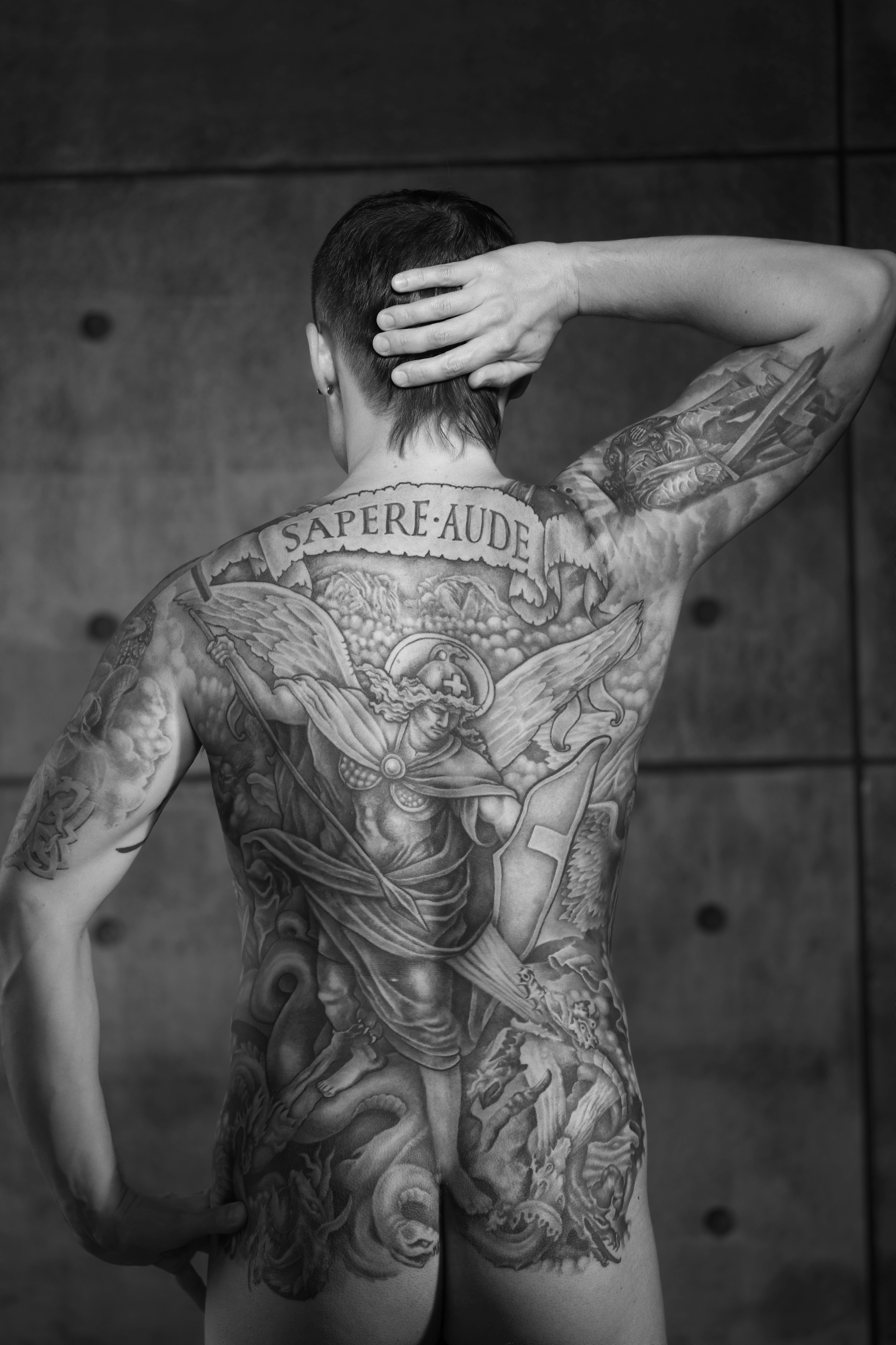 Man with a full back tattoo. Michael and the Dragon. Adapted from Die Bibel in Bildern (Revelation) engraving. Enlightenment motto "Sapere aude" is tattooed in the upper back.